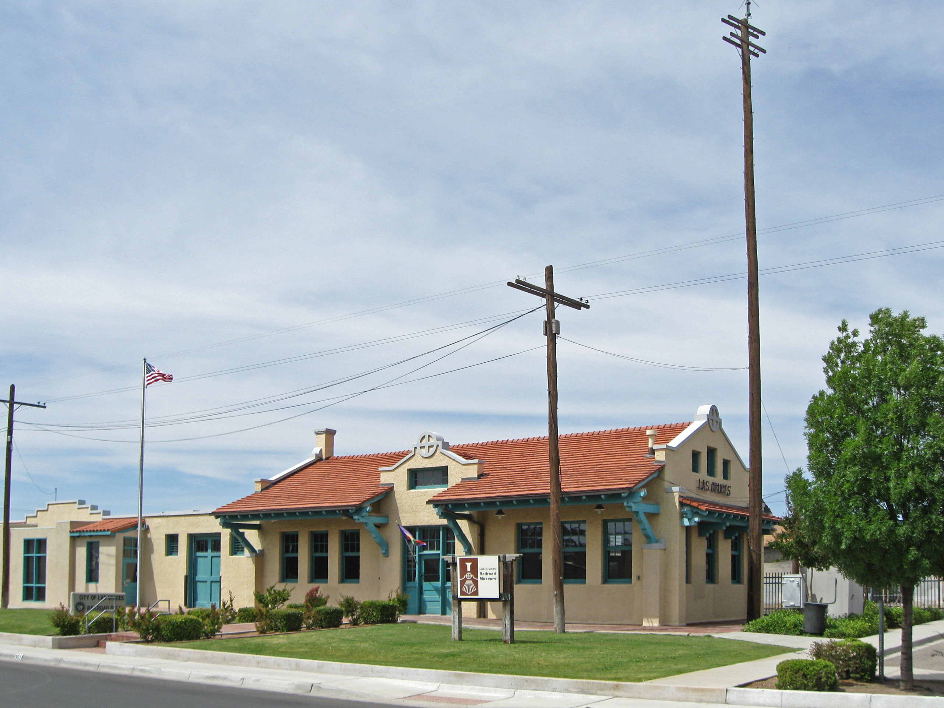 Las Cruces (New Mexico) Railroad Museum, located in a historic Santa Fe Railroad depot at 351 North Mesilla Street. The depot is in the Alameda-Depot Historic District, which is on the National Register of Historic Places, NRIS Item No. 85000786.